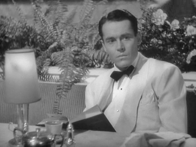 Cropped screenshot of Henry Fonda from the film The Lady Eve